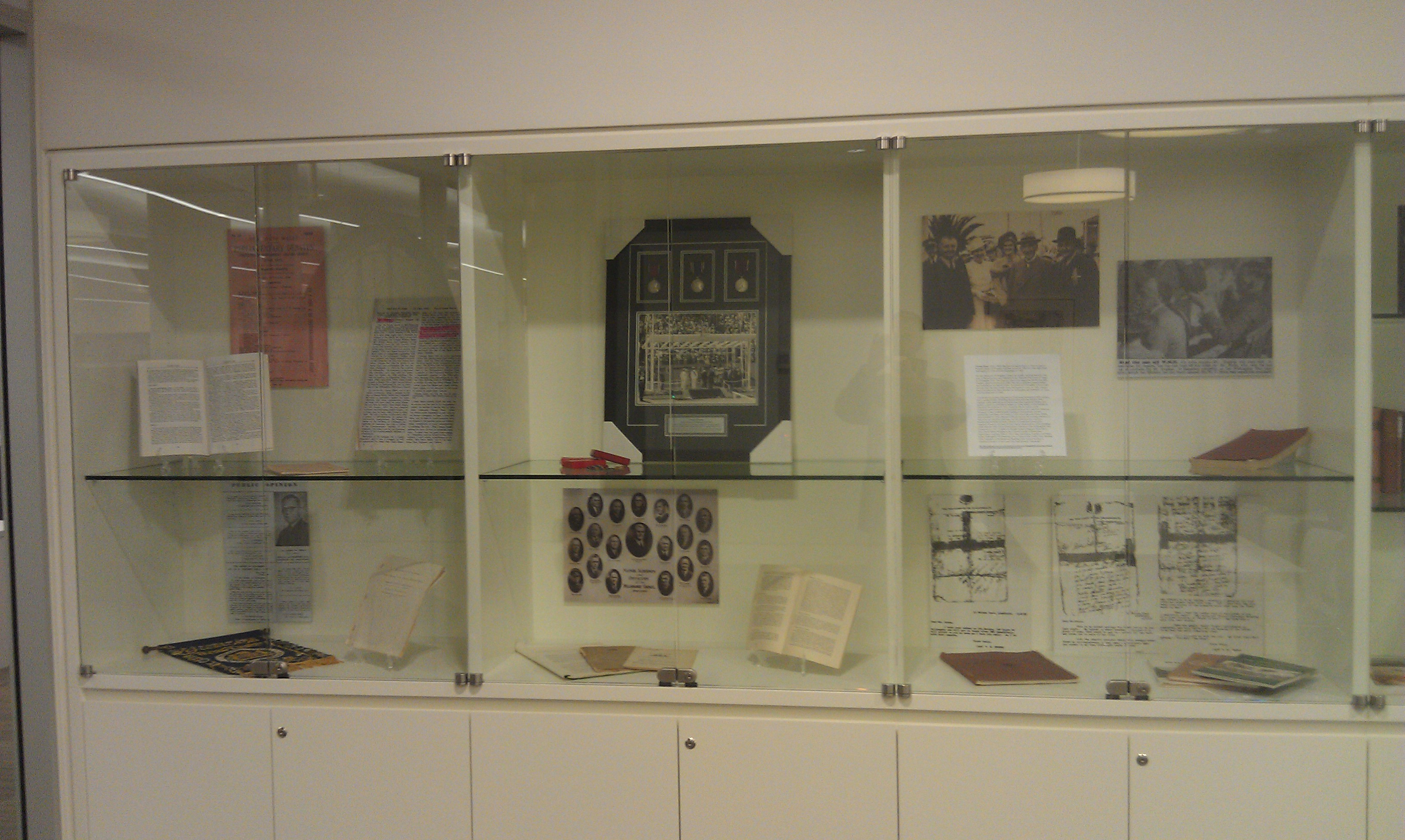 This collection is on display at the Chatswood library recently opened (Oct 2011), Sydney, Australia and has personal items from George W Brain personal items including historical items on the Free Library Movement in NSW (on loan by the Brain family)